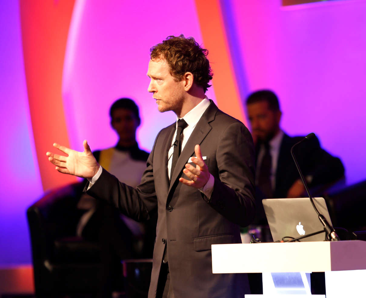 Johannes Torpe giving a speech at the World Retail Congress